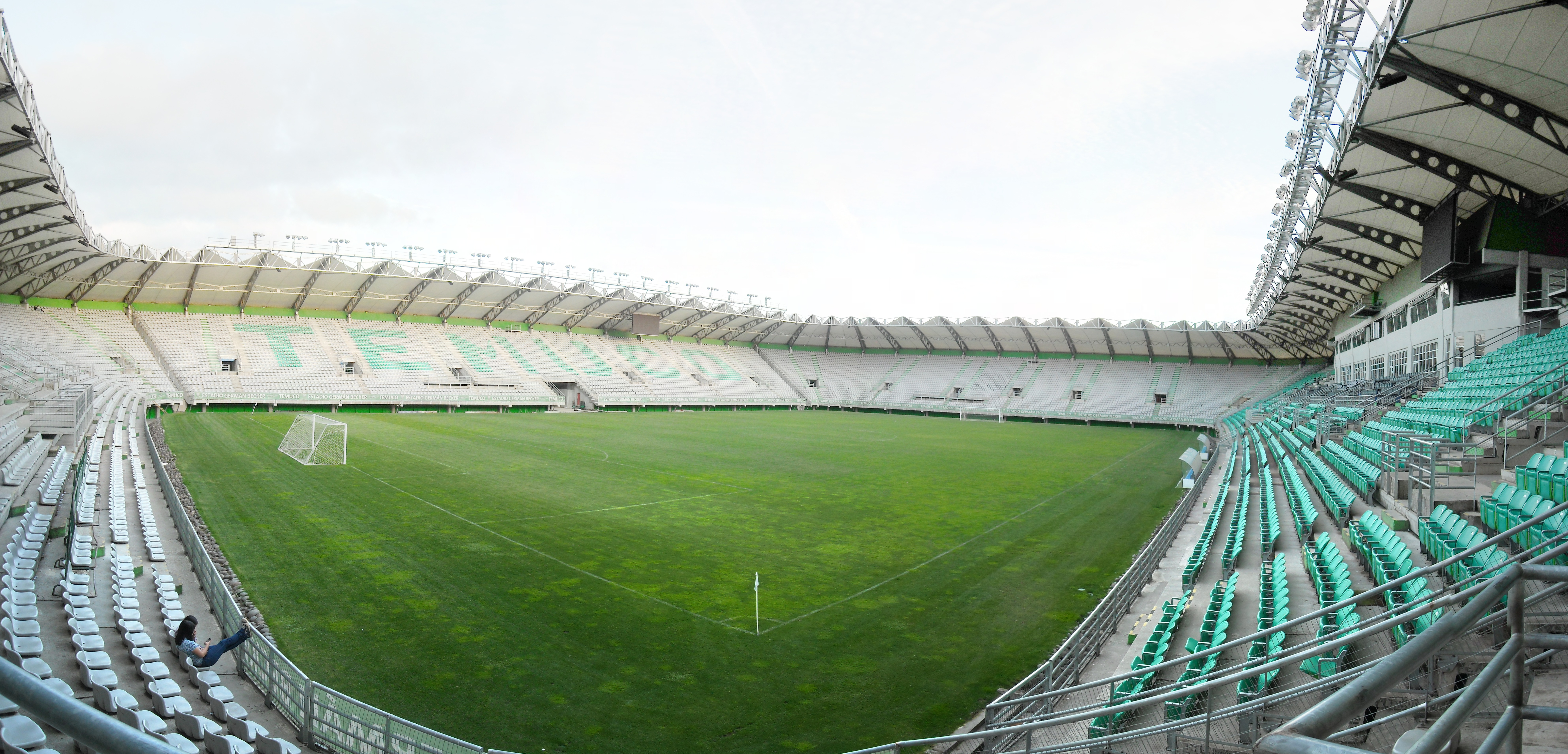 Interior view of the Germán Becker Stadium in Temuco, Chile.